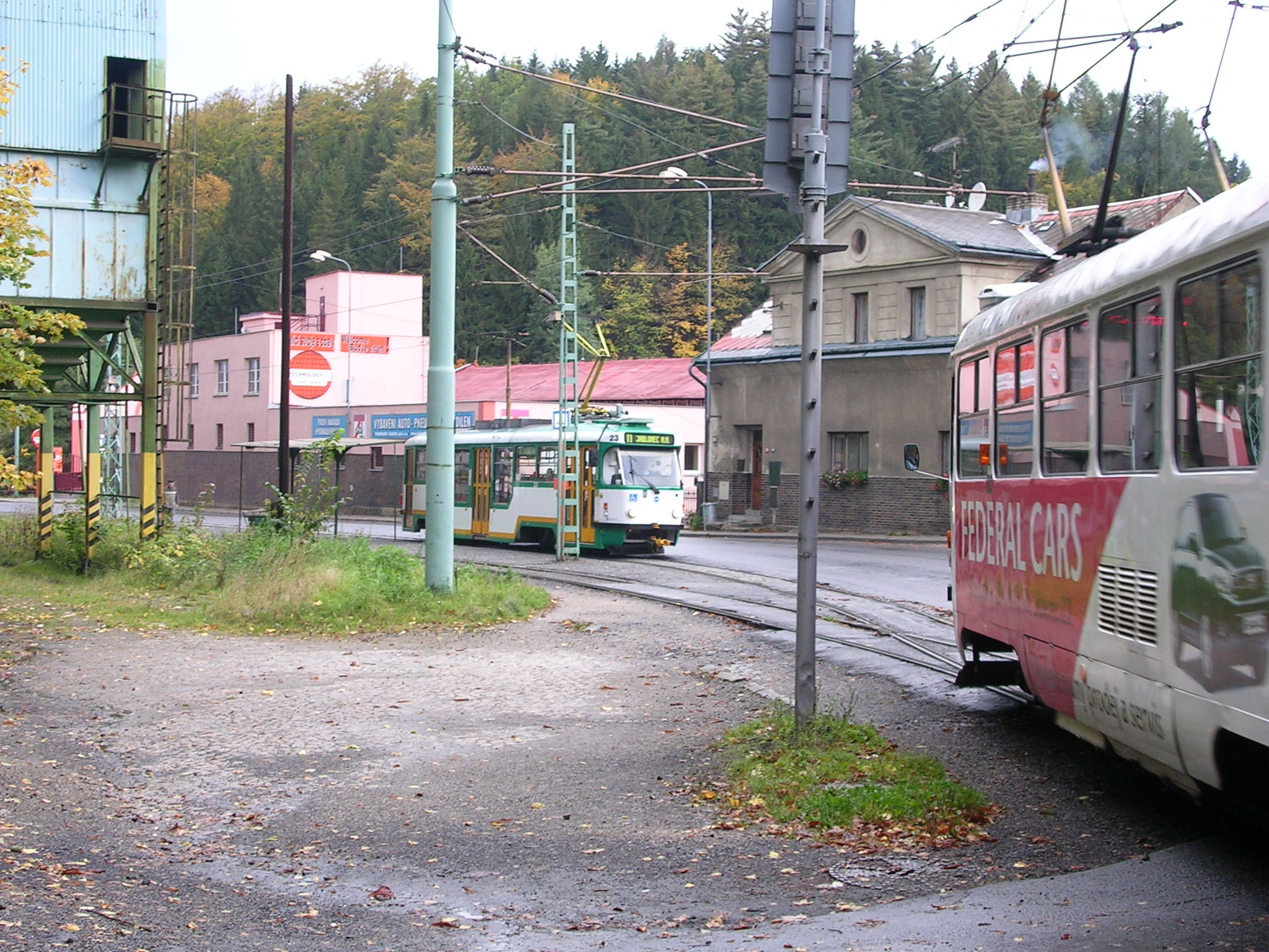 Tramway line between Liberec and Jablonec, Czech Republic. Station "Jablonec nad Nisou, Brandl".